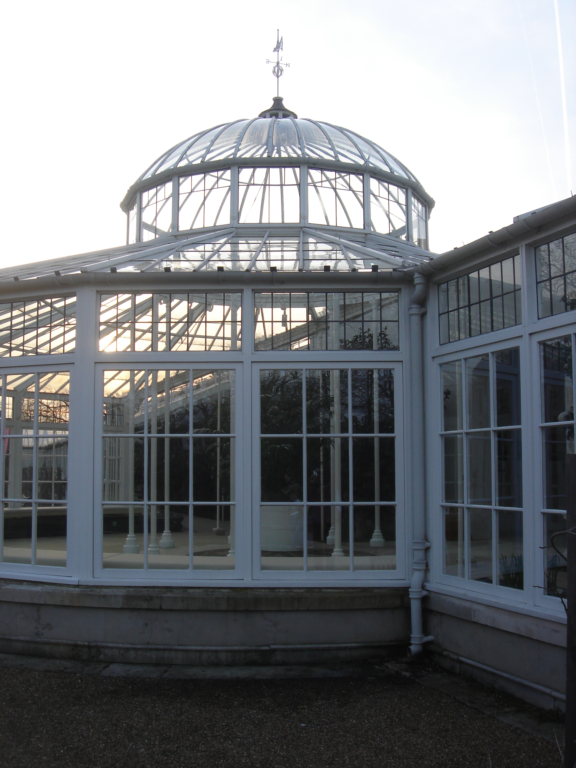 Chiswick House Conservatory